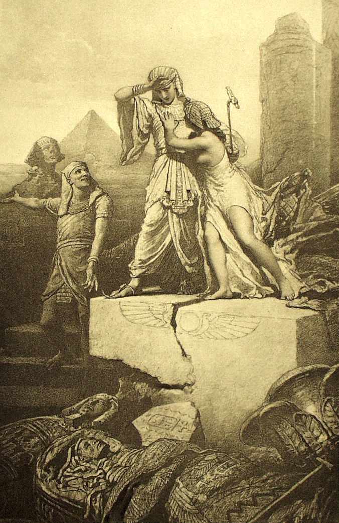 Mihály Zichy - Illustration to Imre Madách's The Tragedy of Man - In Egypt (Scene 4)